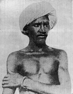 Birsa Munda, photograph in Roy (1912-72)